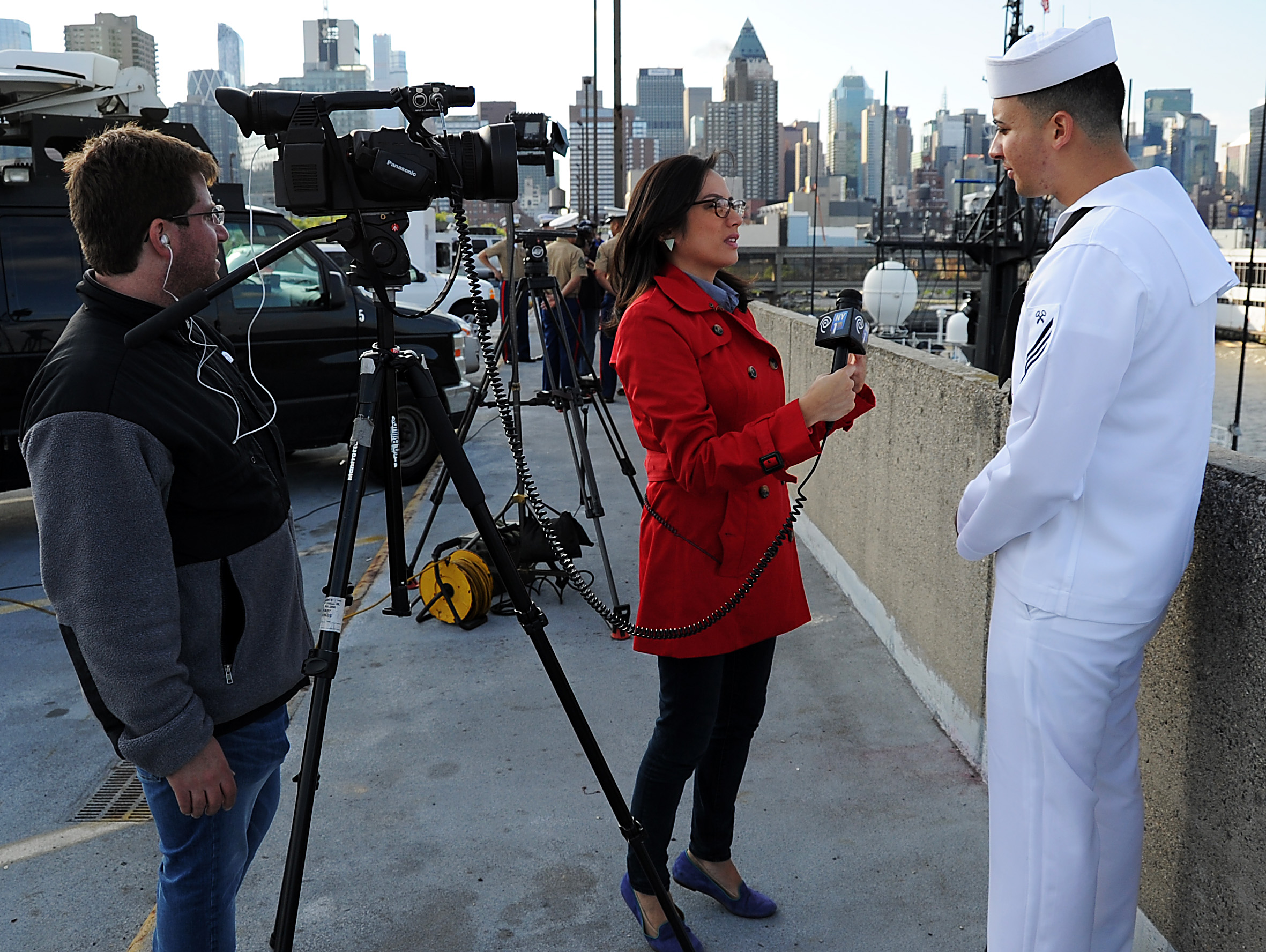 150520-N-CD297-020 New York (May 20, 2015) - Fabiola Galindo, a reporter with NY1 Noticias, interviews New York native Logistics Specialist Seaman Geraldo Matos, assigned to USS San Antonio (LPD 17), about what it means to participate in Fleet Week New York (FWNY), May 20. FWNY is the city’s celebration of the sea service. It is a unique opportunity for the citizens of New York and visitors to interact with Sailors, Marines and Coast Guardsmen from May 20-26. (U.S. Navy photo by Mass Communication Specialist 1st Class Andre N. McIntyre/Released)